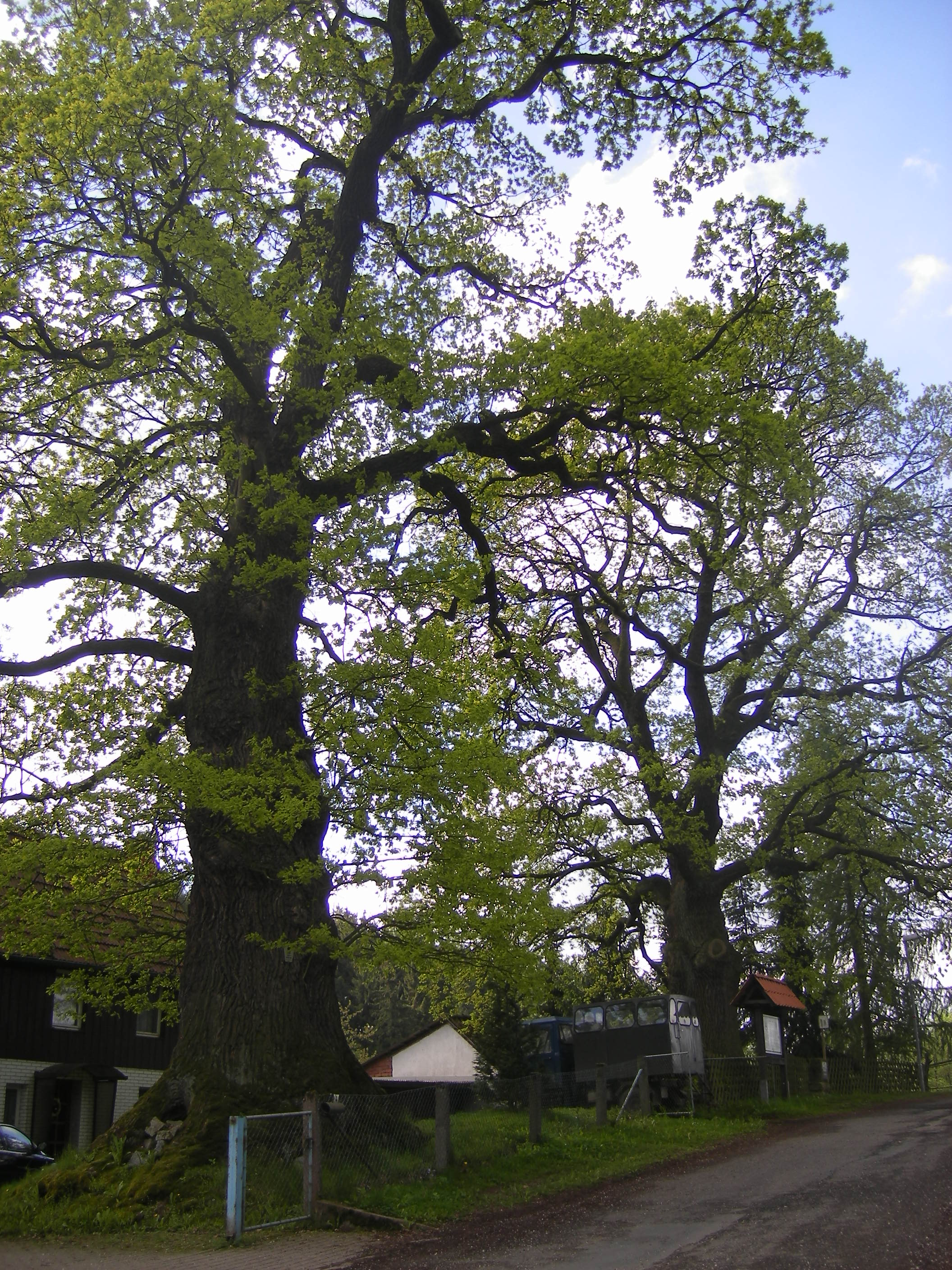 Oaks in Silkerode in south of the Harz mountains in district of Eichsfeld in Thuringia, the trees are named by Johann Wolfgang von Goethe